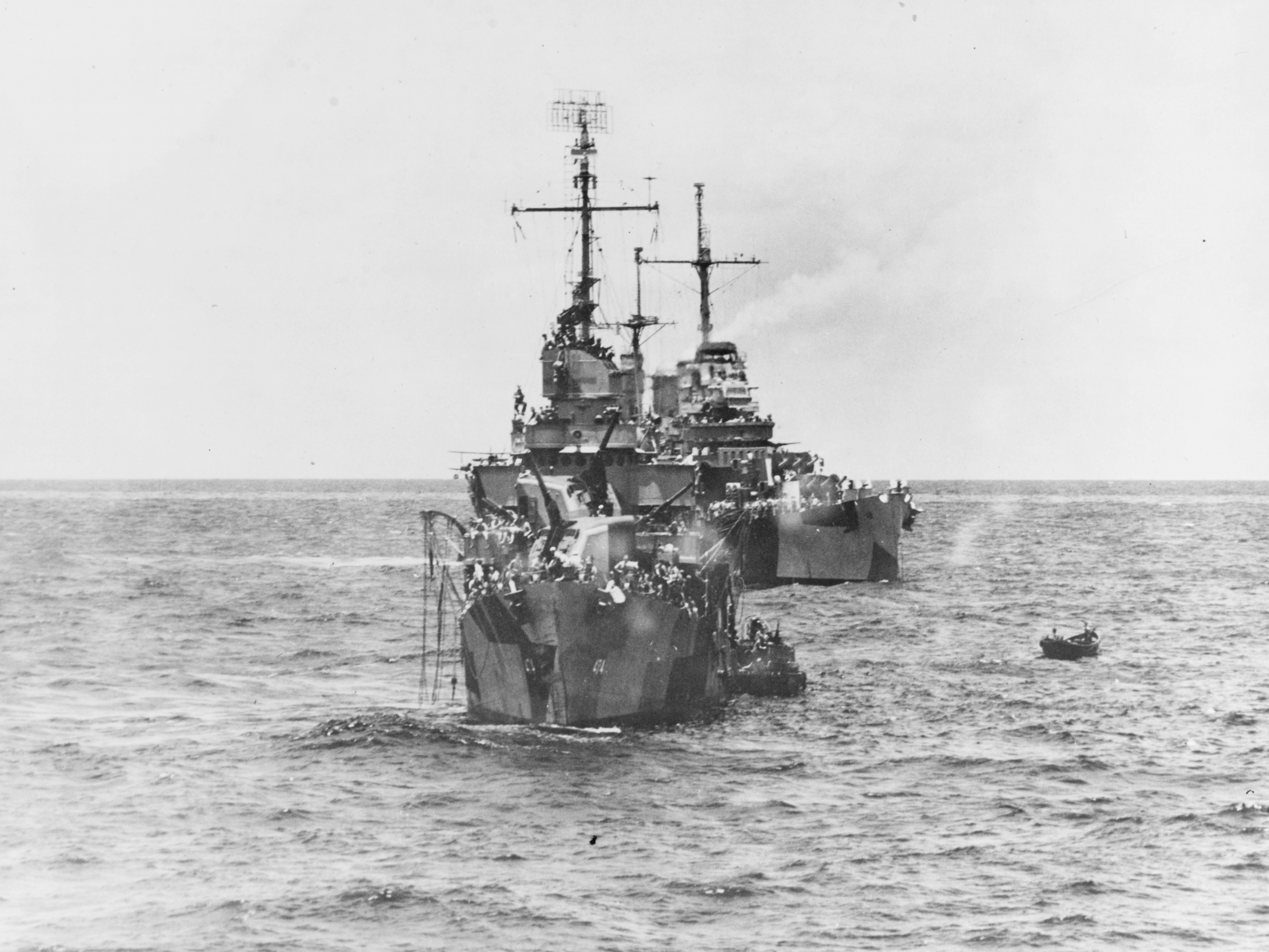 The U.S. Navy destroyer USS Fullam (DD-474) recovers survivors of the high-speed transport USS Noa (APD-24) as the light cruiser USS Honolulu (CL-48) stands by in the background, in the morning on 12 September 1944. Noa sank after being rammed by USS Fullam (DD-474) while both were en route to the invasion of Peleliu.